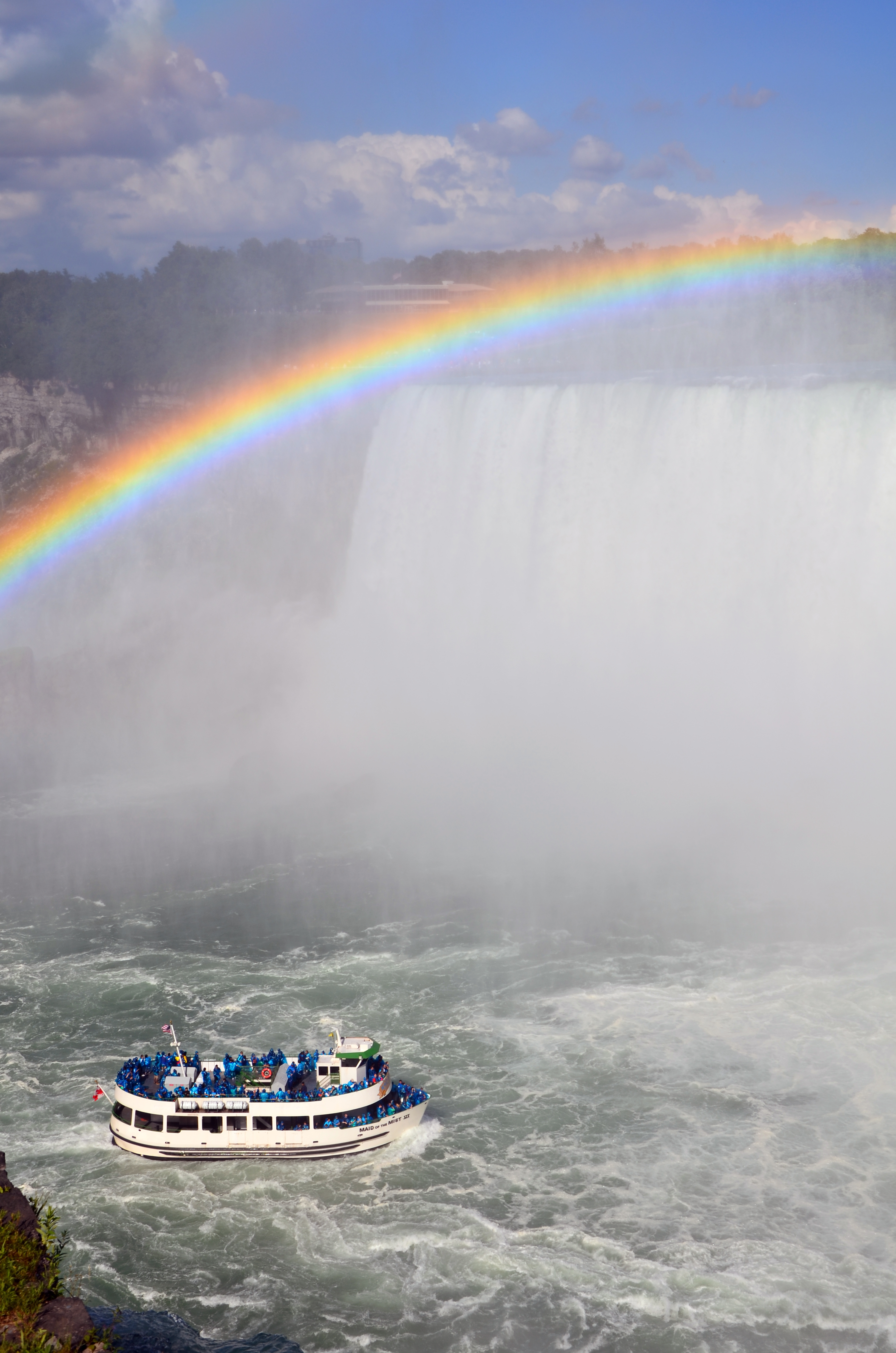 A boat of the canadian company Hornsblower on the Niagara river, next to the Horseshoe Fall (Niagara Falls, Ontario, Canada)